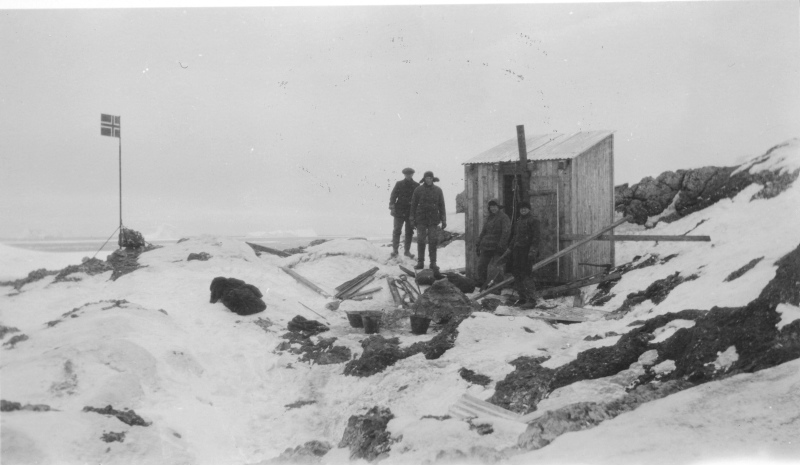 Refuge hut on Cape Circoncision, Bouvet Island